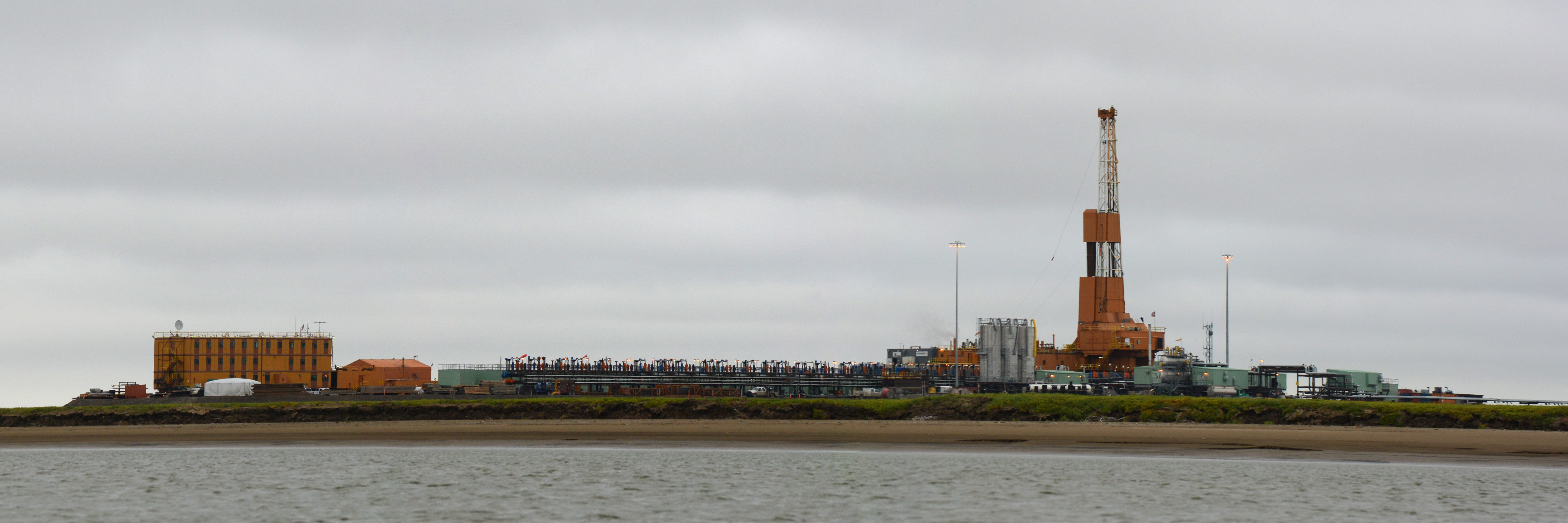 Photo by Paxson Woelber, Expedition Arguk